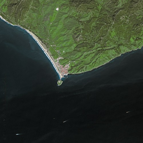 Tarifa by SPOT Satellite